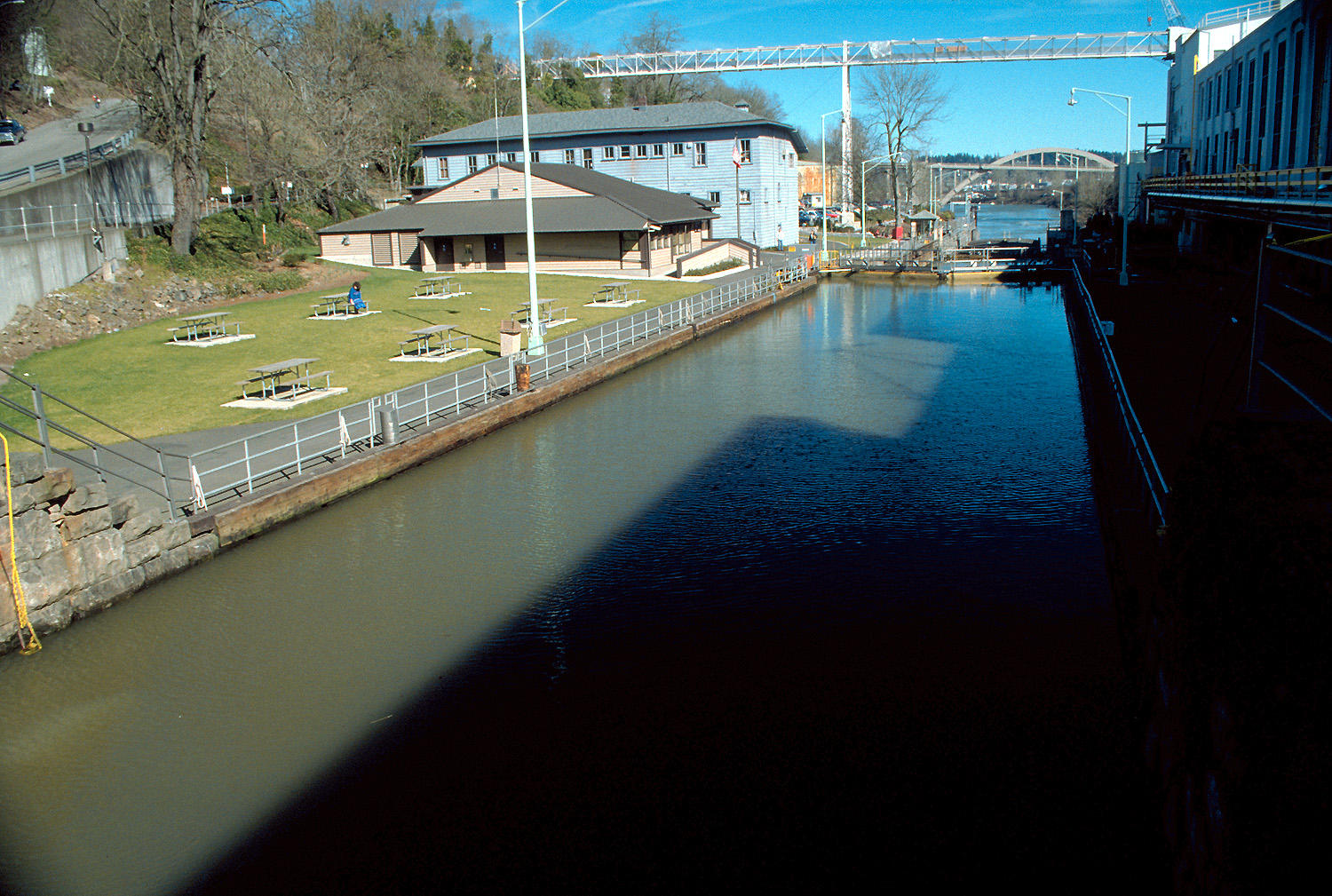 Willamette Falls Locks at Willamette Falls on the Willamette River at Oregon City, Oregon, USA. View is downstream to the northwest. The Old Oregon City-West Linn Bridge is visible in the background.